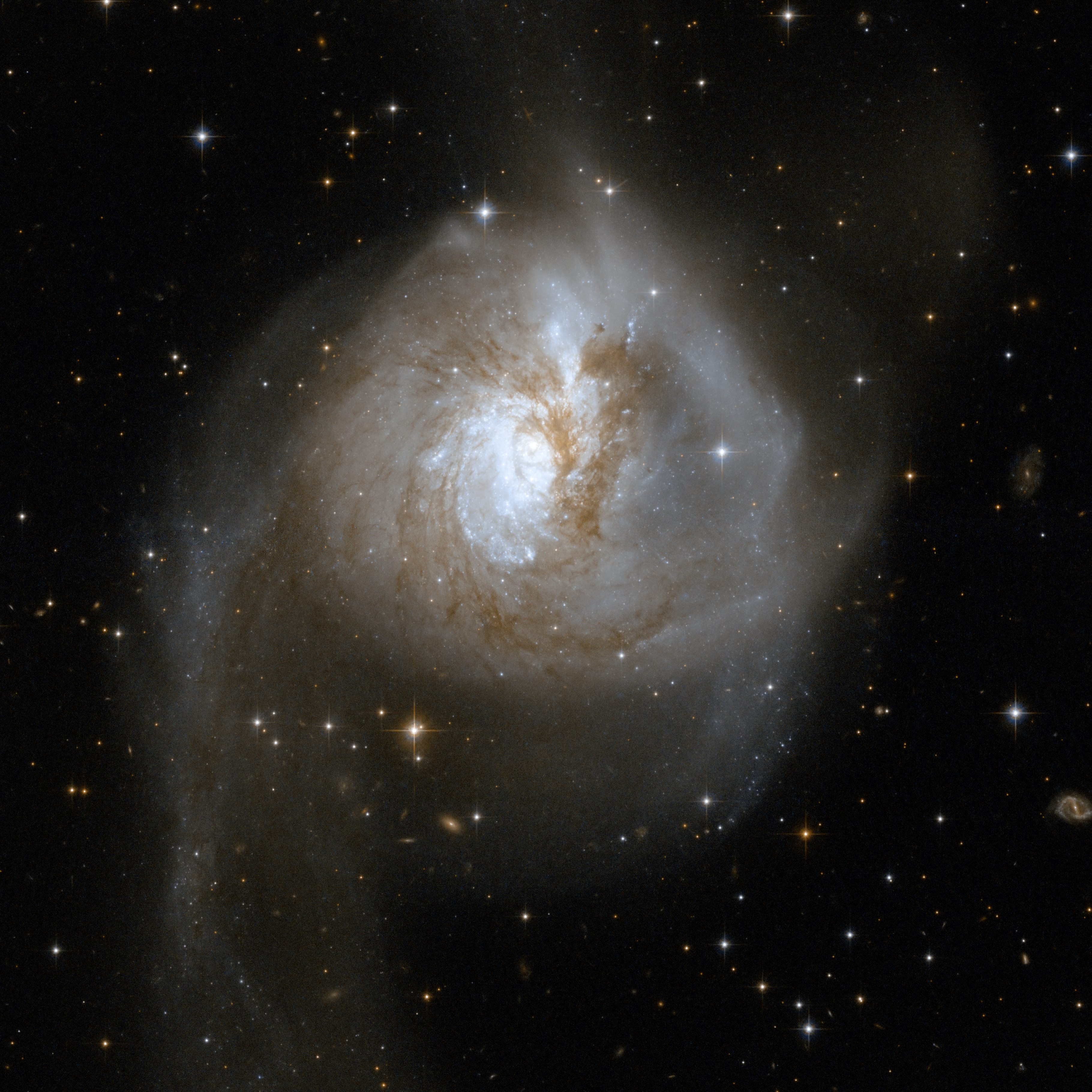 NGC 3256 is an impressive example of a peculiar galaxy that is actually the relict of a collision of two separate galaxies that took place in a distant past. The telltale signs of the collision are two extended luminous tails swirling out from the galaxy. NGC 3256 belongs to the Hydra-Centaurus supercluster complex and provides a nearby template for studying the properties of young star clusters in tidal tails. The system hides a double nucleus and a tangle of dust lanes in the central region. The tails are studded with a particularly high density of star clusters. This image is part of a large collection of 59 images of merging galaxies taken by the Hubble Space Telescope and released on the occasion of its 18th anniversary on 24th April 2008. About the objectObject nameNGC 3256, VV 065, AM 1025-433Object descriptionInteracting GalaxiesPosition (J2000)10 27 51.57 -43 54 13.4ConstellationVelaDistance100 million light-years (50 million parsecs)About the dataData descriptionThe Hubble image was created using HST data from proposal 10592: A. Evans (University of Virginia, Charlottesville/NRAO/Stony Brook University)InstrumentACS/WFCExposure date(s)November 5, 2001Exposure time35 minutesFiltersF435W (B) and F814W (I)